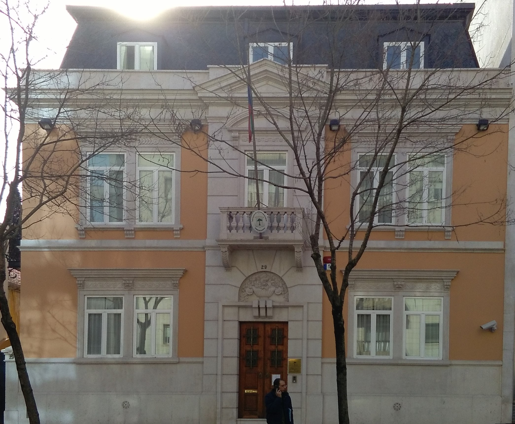 Embassy of Equatorial Guinea in Lisbon, Portugal.